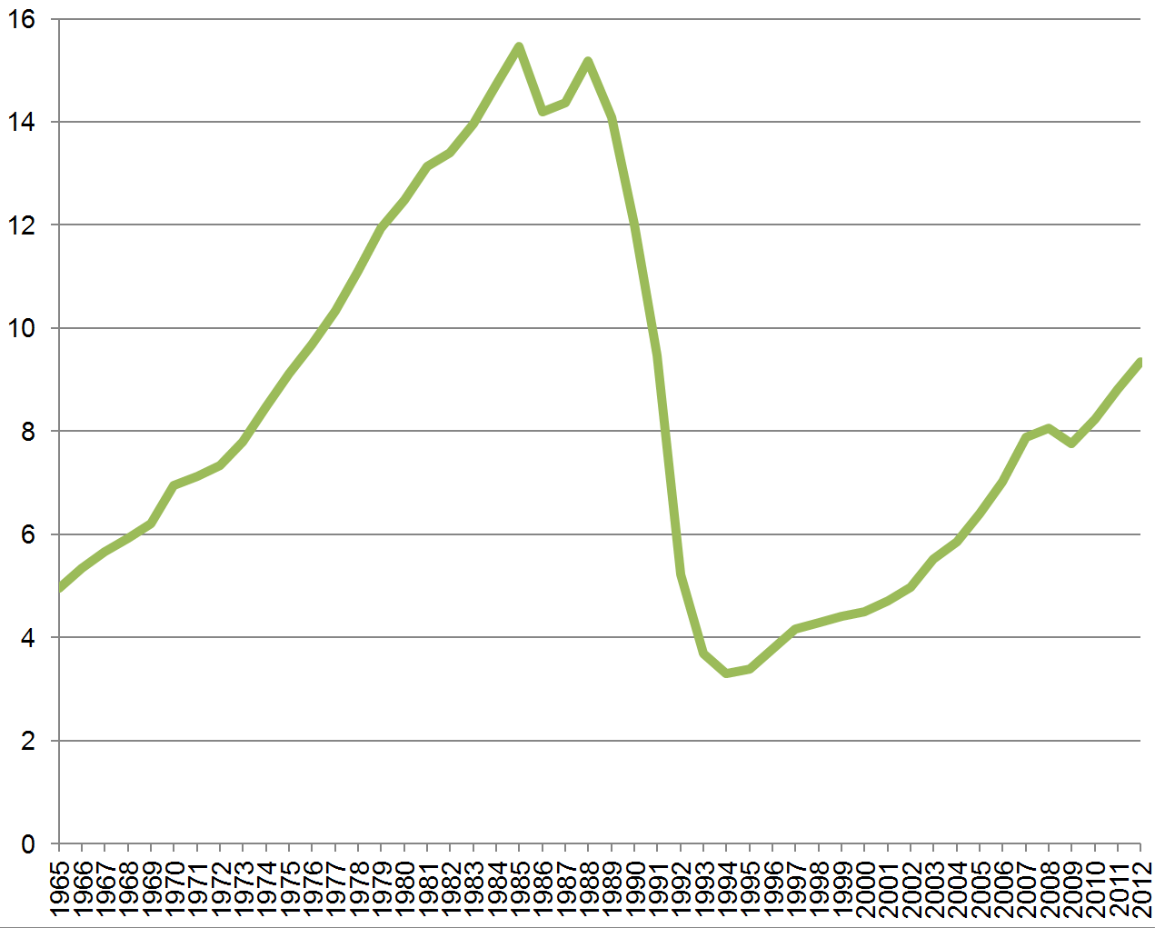 Georgia GDP, PPP (constant 2005 international $), World Bank estimations